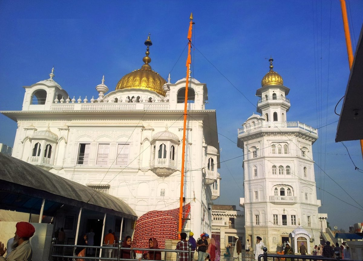 Photo taken of Gurdwara Baba Bakala Sahib during the daytime.